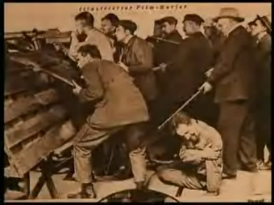 Photo of Murnau´s film "Satanas"